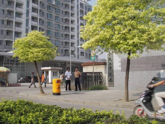 East gate of Hefei University of Technology, Hefei, mainland China. Originally posted to Japanese Wikipedia, Hefei University of Technology.